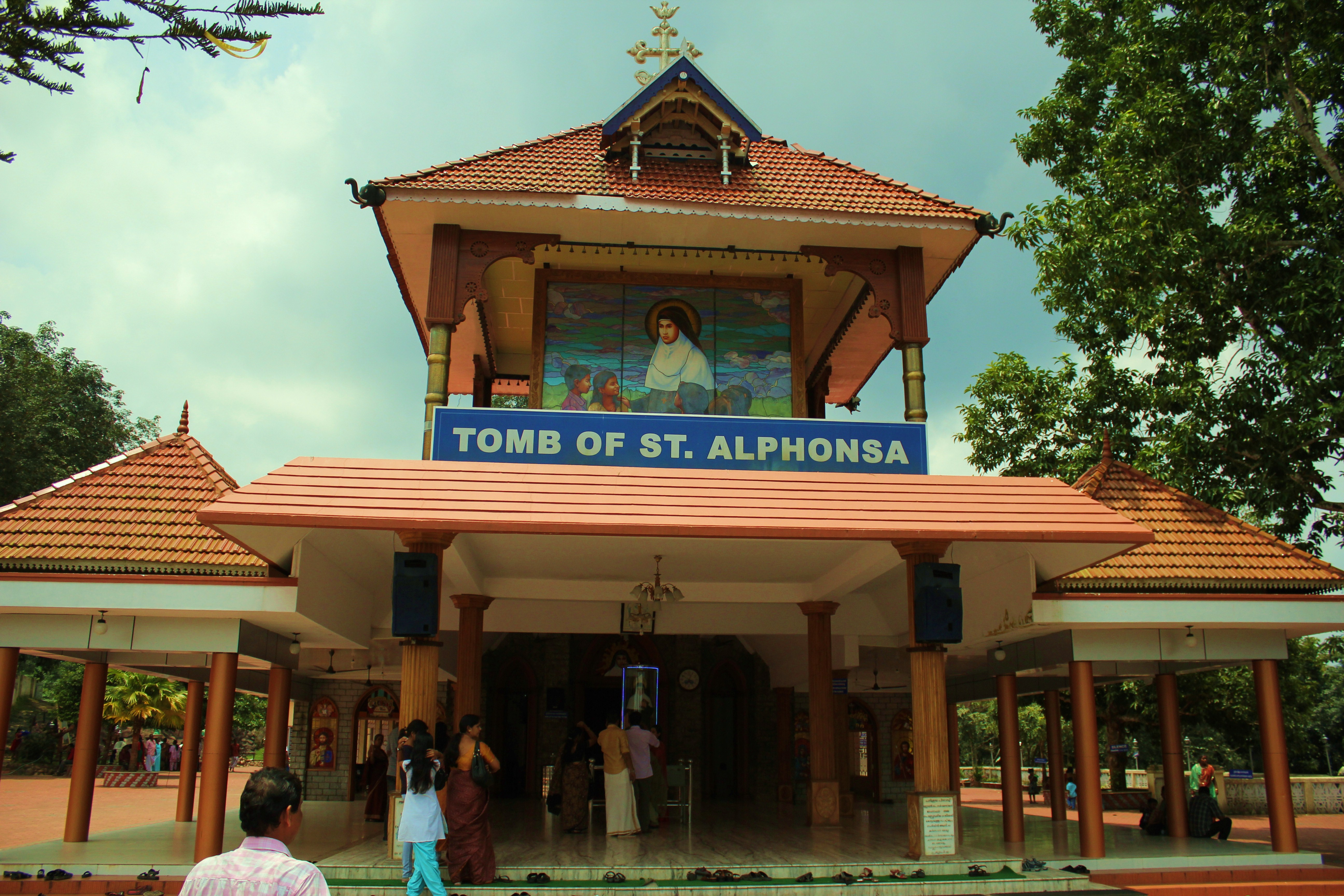 Saint Alphonsa. After her death, they began visiting her tomb and offering prayers.People continued, they started receiving favours. Ever since, her tomb has been a centre of pilgrimage and innumerable miracles.